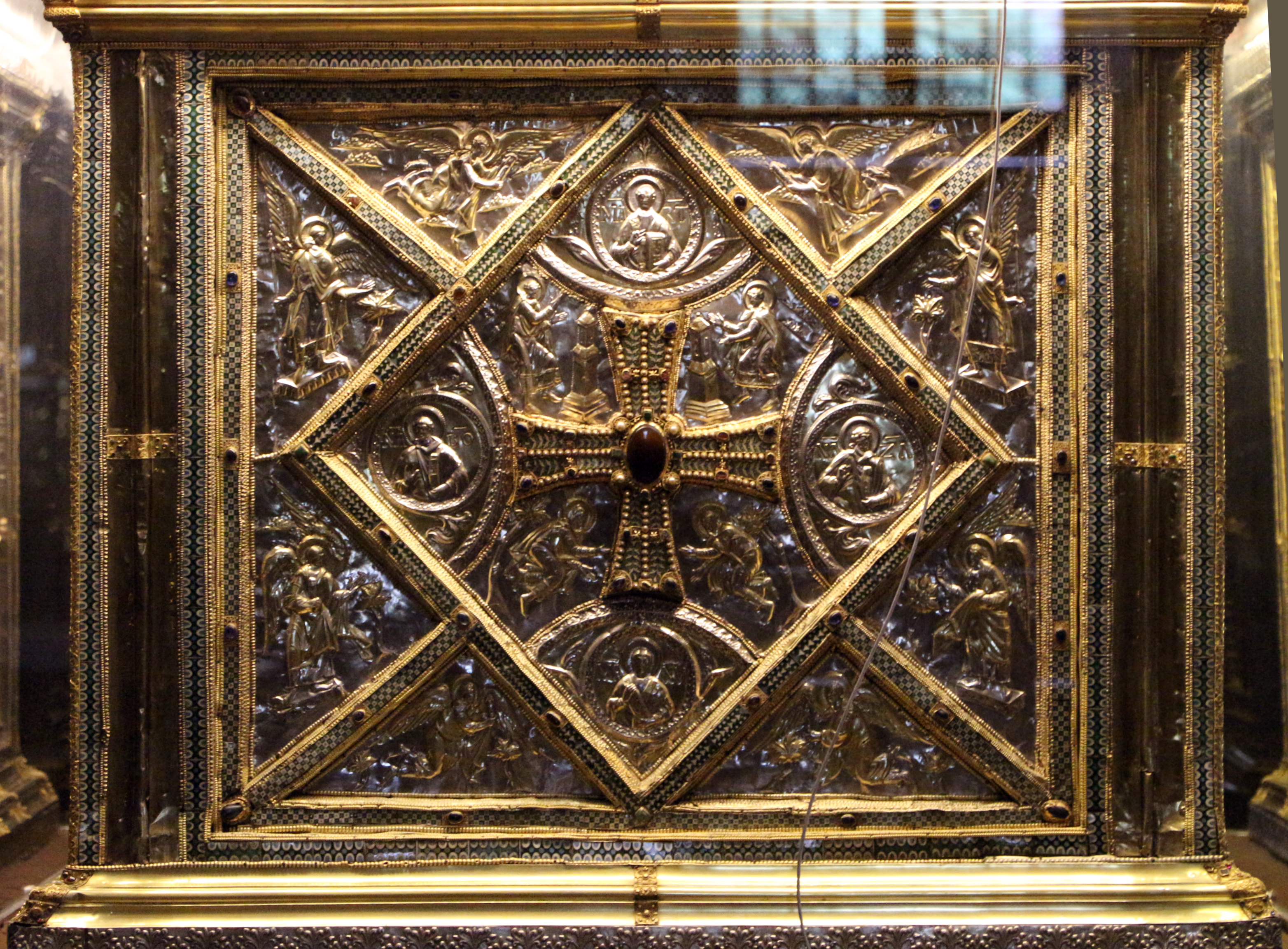 Sant'Ambrogio Altar